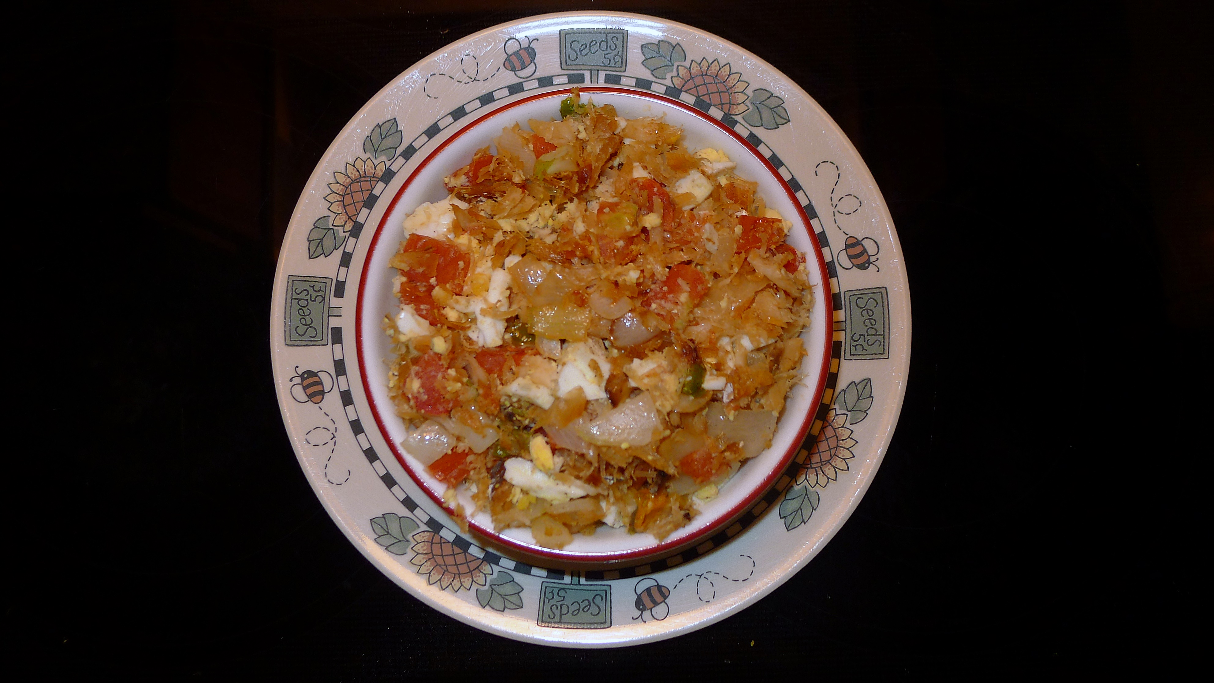 Buljol is a Caribbean dish made of salted codfish, oil, onions, tomatoes, hot peppers and sometimes boiled eggs are added.